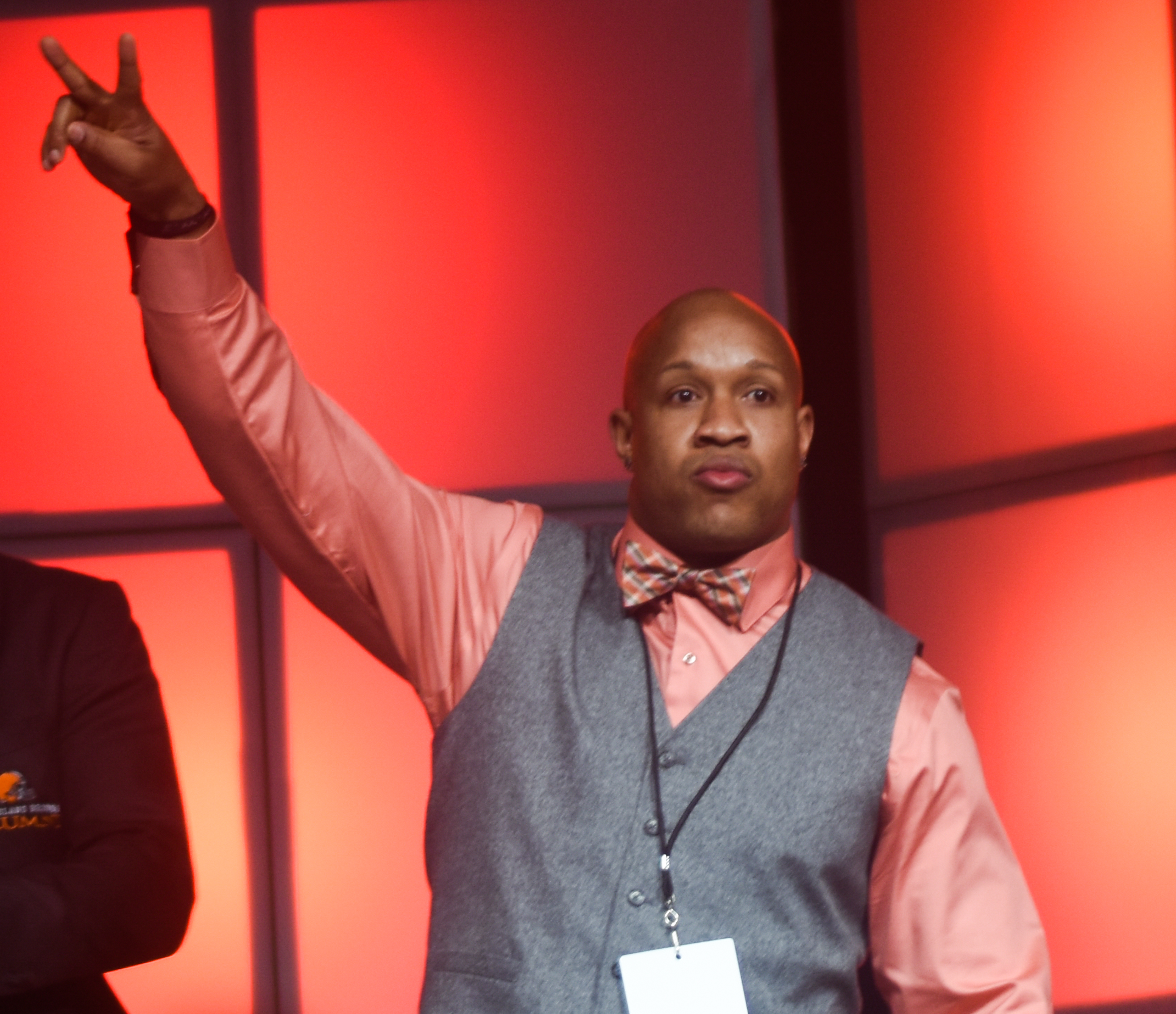 Cleveland Browns New Uniform Unveiling